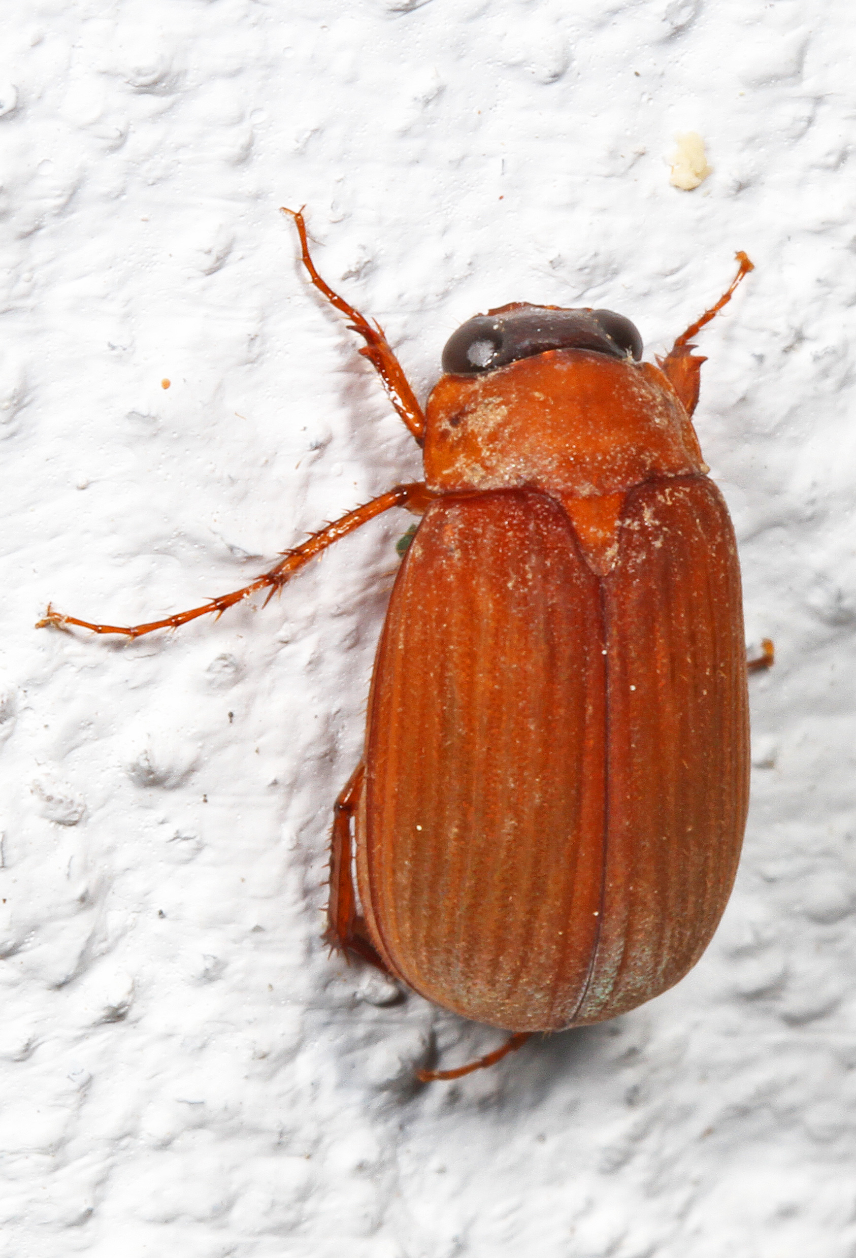 May Beetle - Nipponoserica peregrina, Woodbridge, Virginia